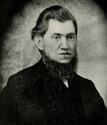 Edward Crossland (Kentucky Congressman)